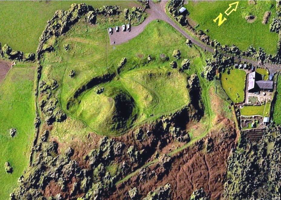 Digital model of Castle Pulverbatch. Interactive model available at Sketchfab.